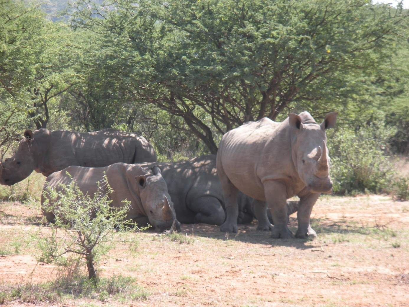 The herd of white rhinos